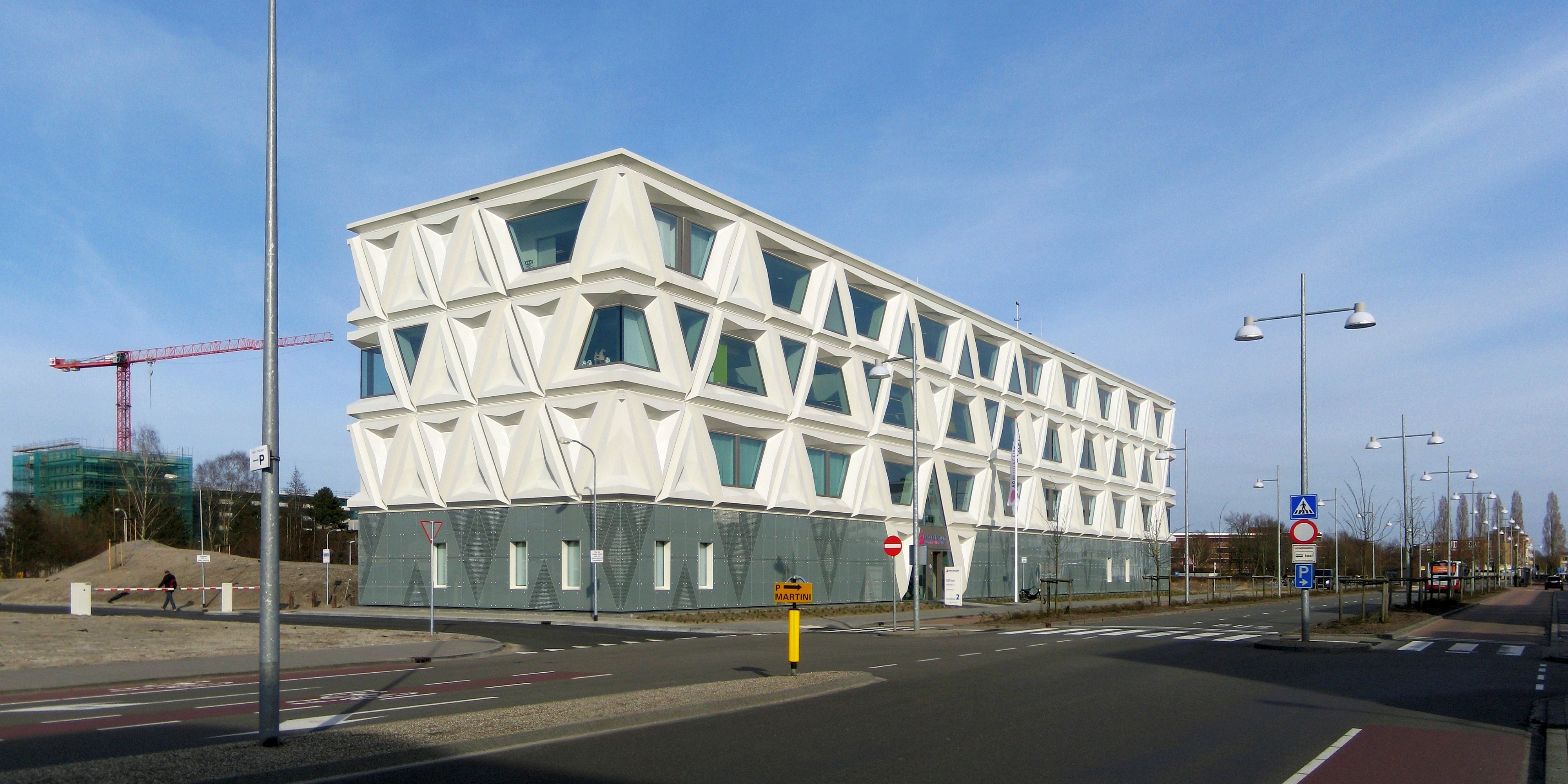 The Laboratorium voor Infectieziekten (Infectious Diseases Laboratory) (2011, De Zwarte Hond) in the Dutch city of Groningen.